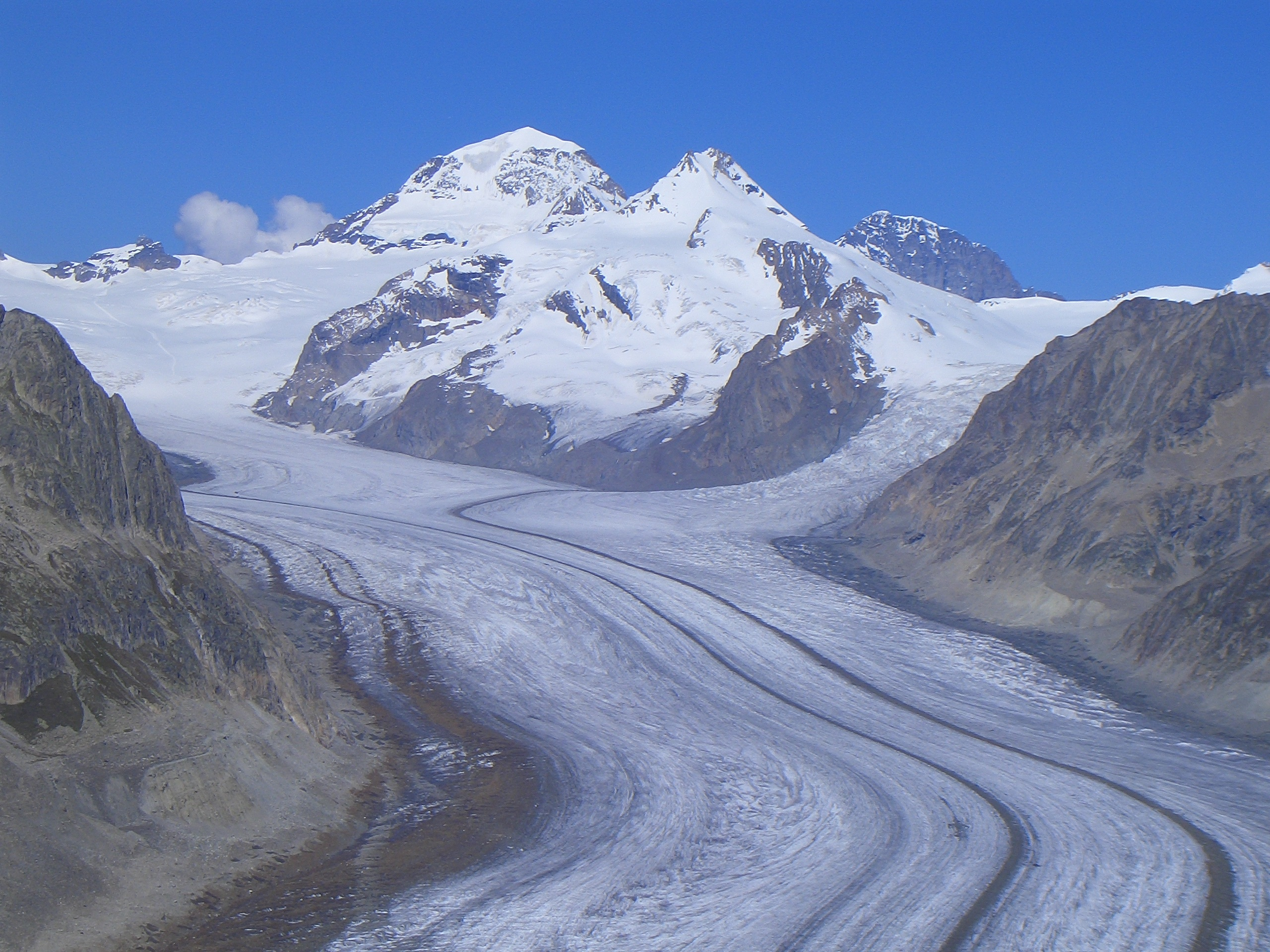 Aletsch Glacier, Switzerland